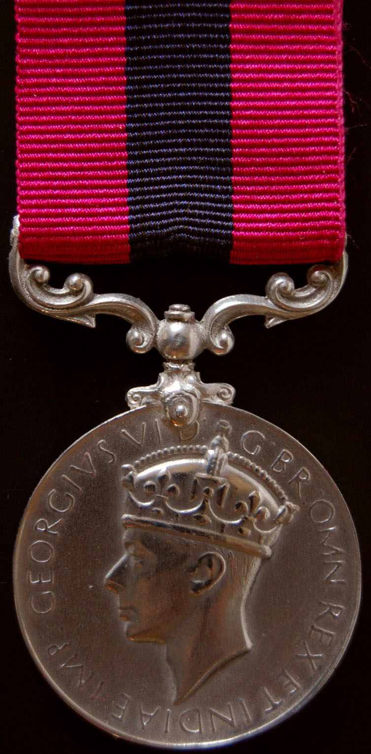 Front of Distinguished Conduct Medal (George VI version)